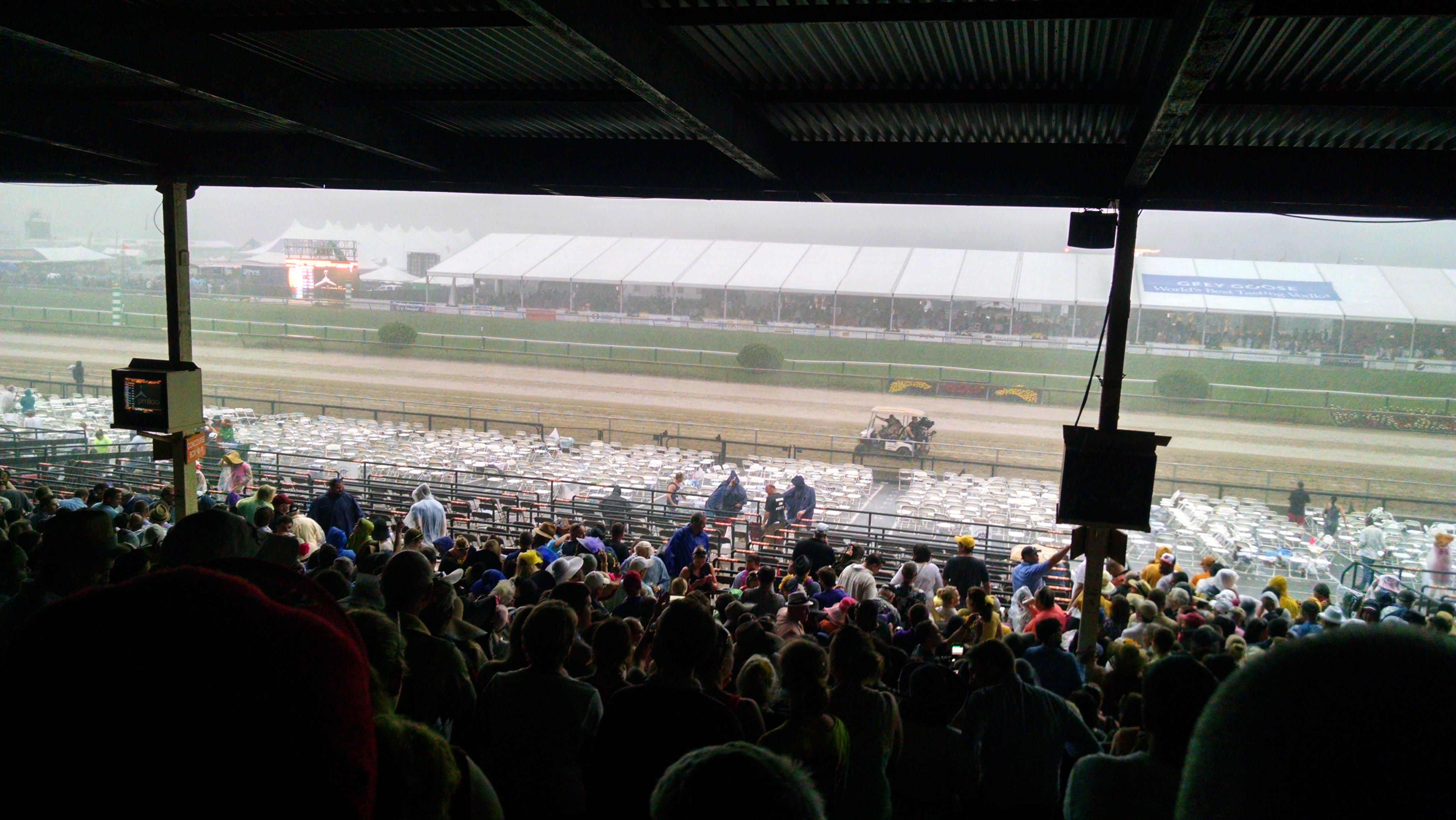 View from the stands at the 2015 Preakness Stakes at Pimlico. The track was very muddy due to a thunderstorm before the race.